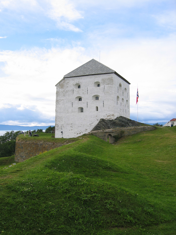 Kristiansten Fortress in Trondheim, Norway